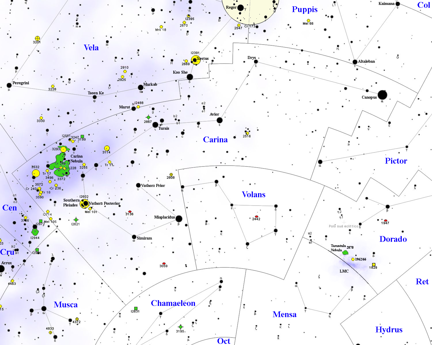 Carina constellation map, with DSOs